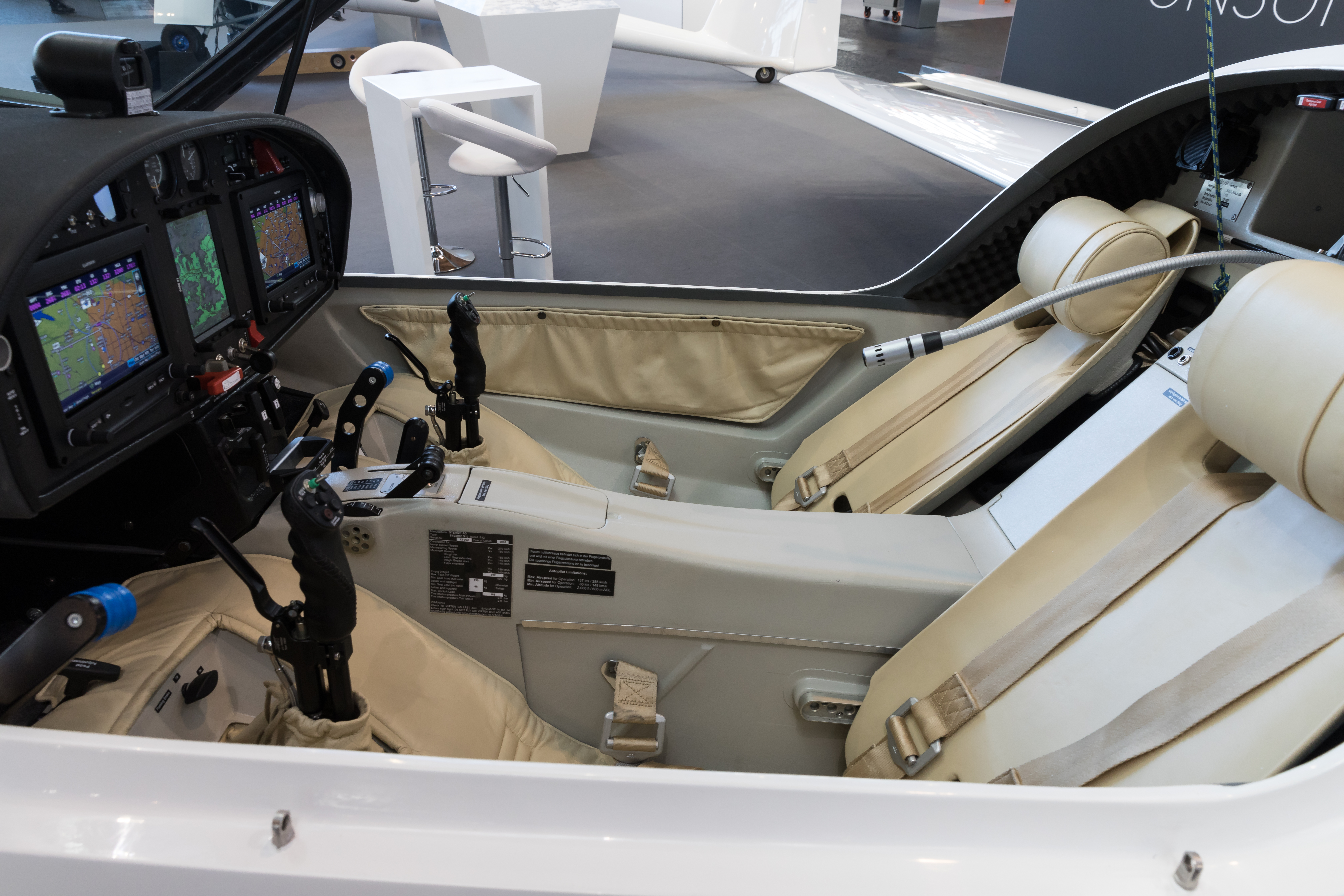 AERO Friedrichshafen 2018